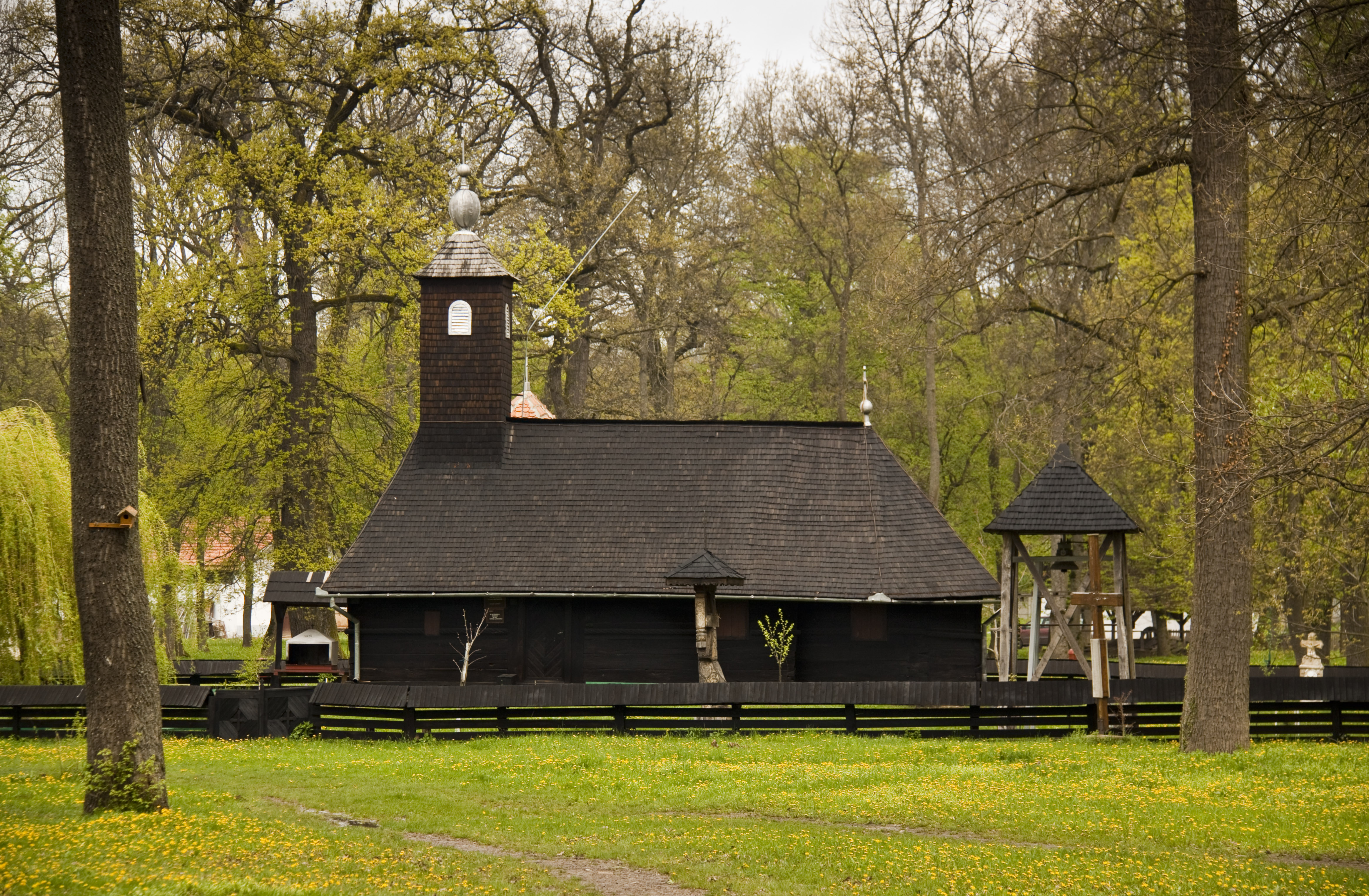 Topla, Timiş county, Romania. The wooden church transferred in the Banat Village Museum from Timişoara.